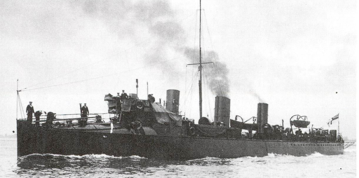 HMS Recruit (build 1896), the first vitim of SM UB-6. Torpedoed and sunk on 1 May 1915